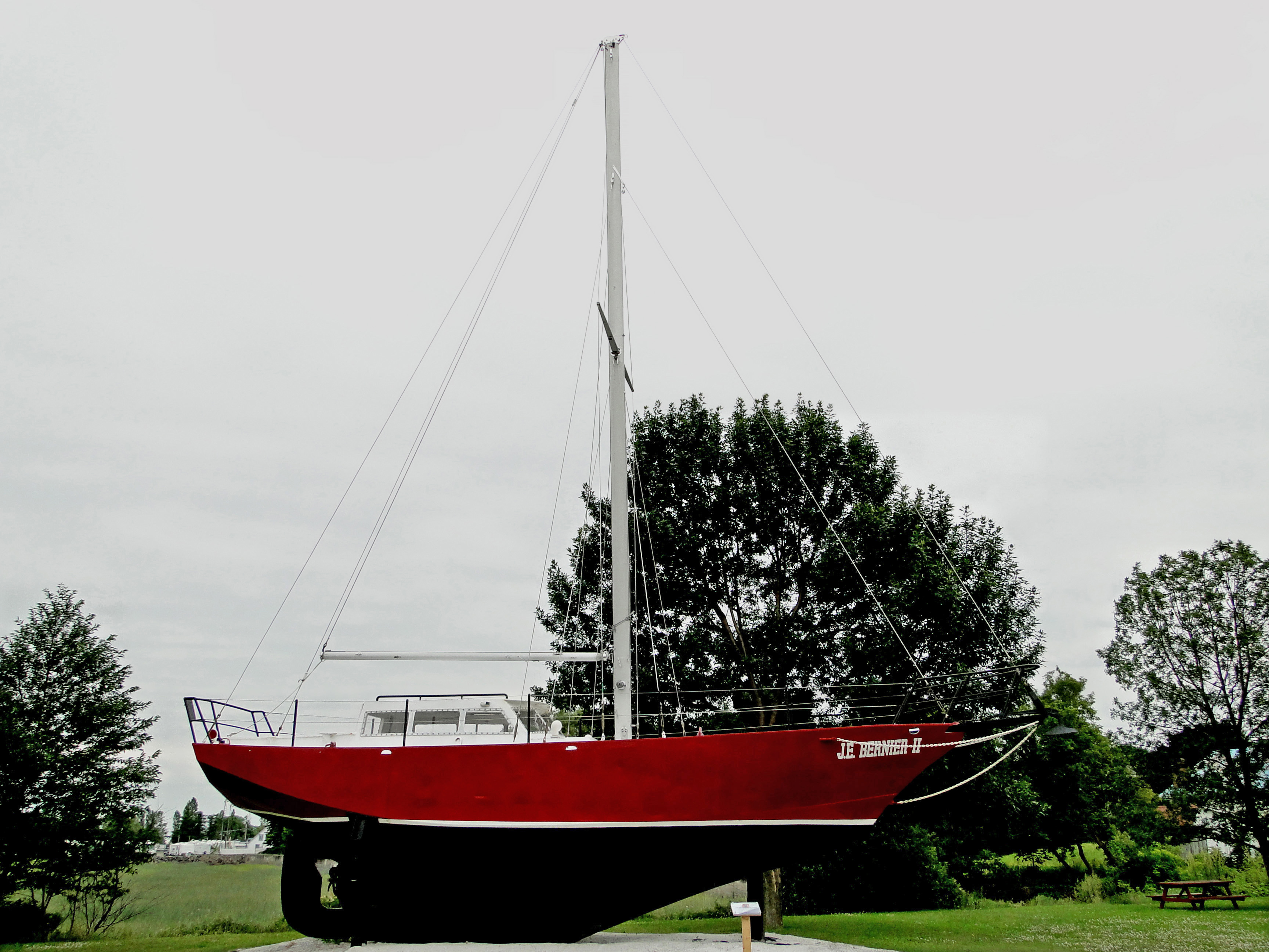 The J.E. Bernier II at the Musée maritime du Québec, L'Islet, Canada